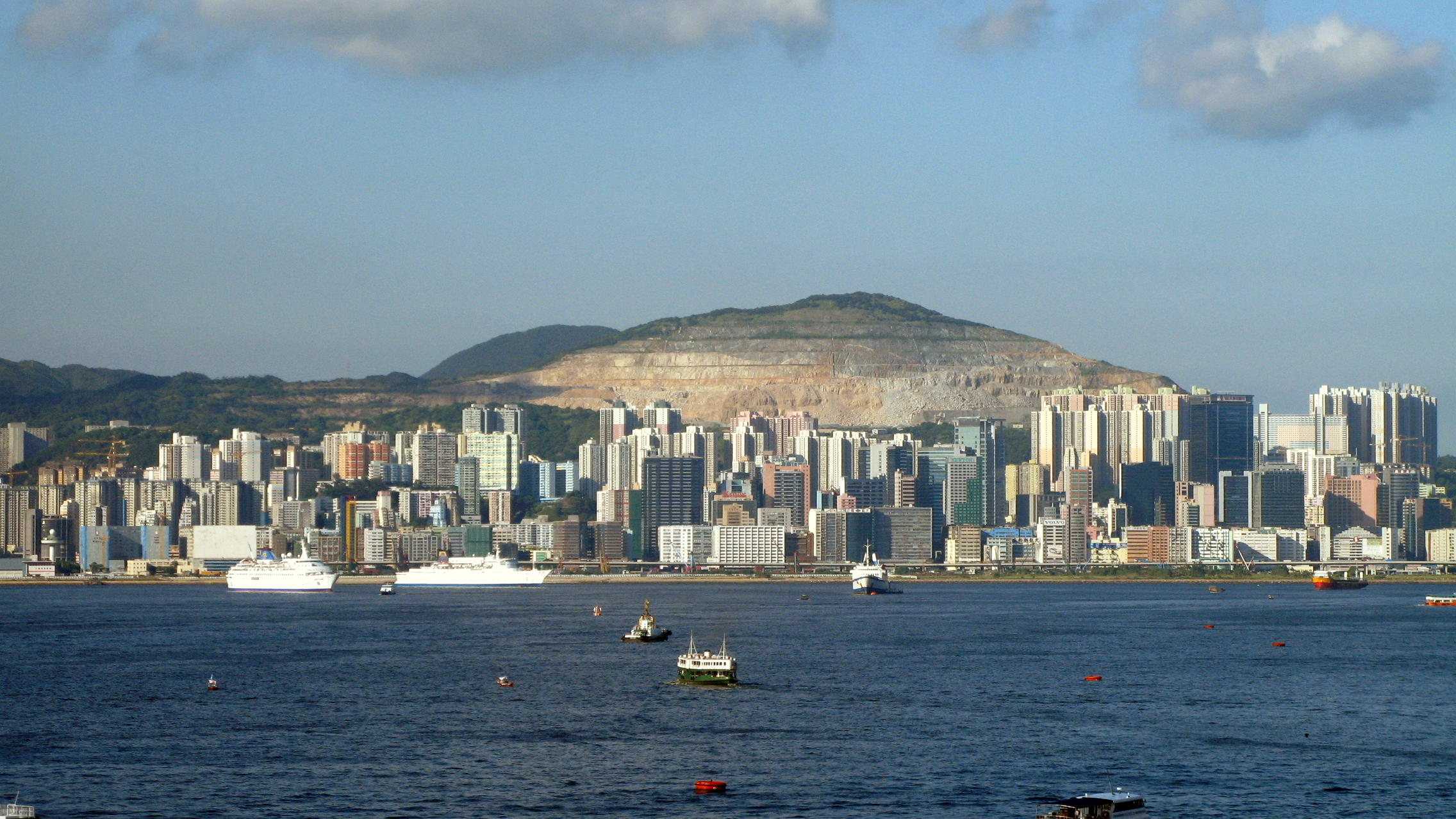 香港東九龍 HK East Kowloon View in 2007